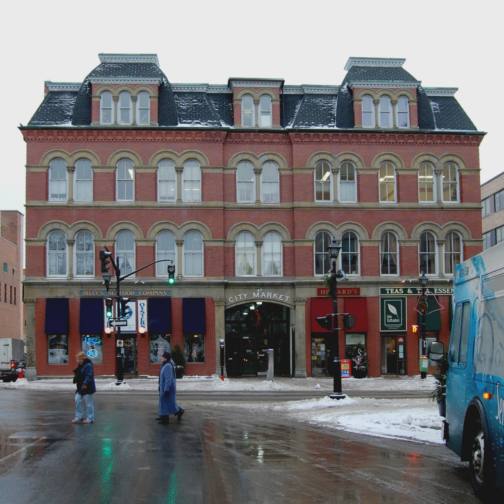 Self-made photo. Cropped and adjusted for contrast.